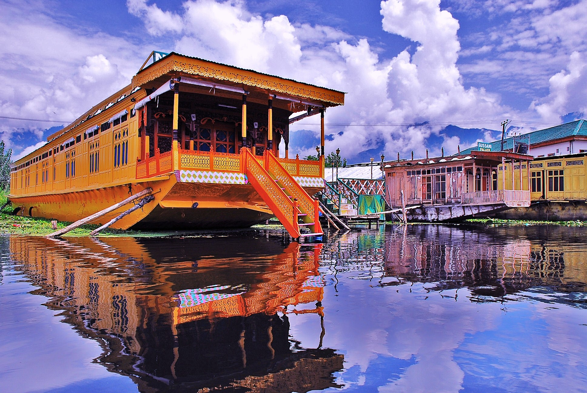 Houseboats are floating luxury hotels predominantly seen in Dal Lake in Srinagar, Kashmir. They offer a wide variety of services besides the luxurious lodging and catering. See more pics at Flicker for Kashmir; Flickr Pool and Kashmir set at Flickr